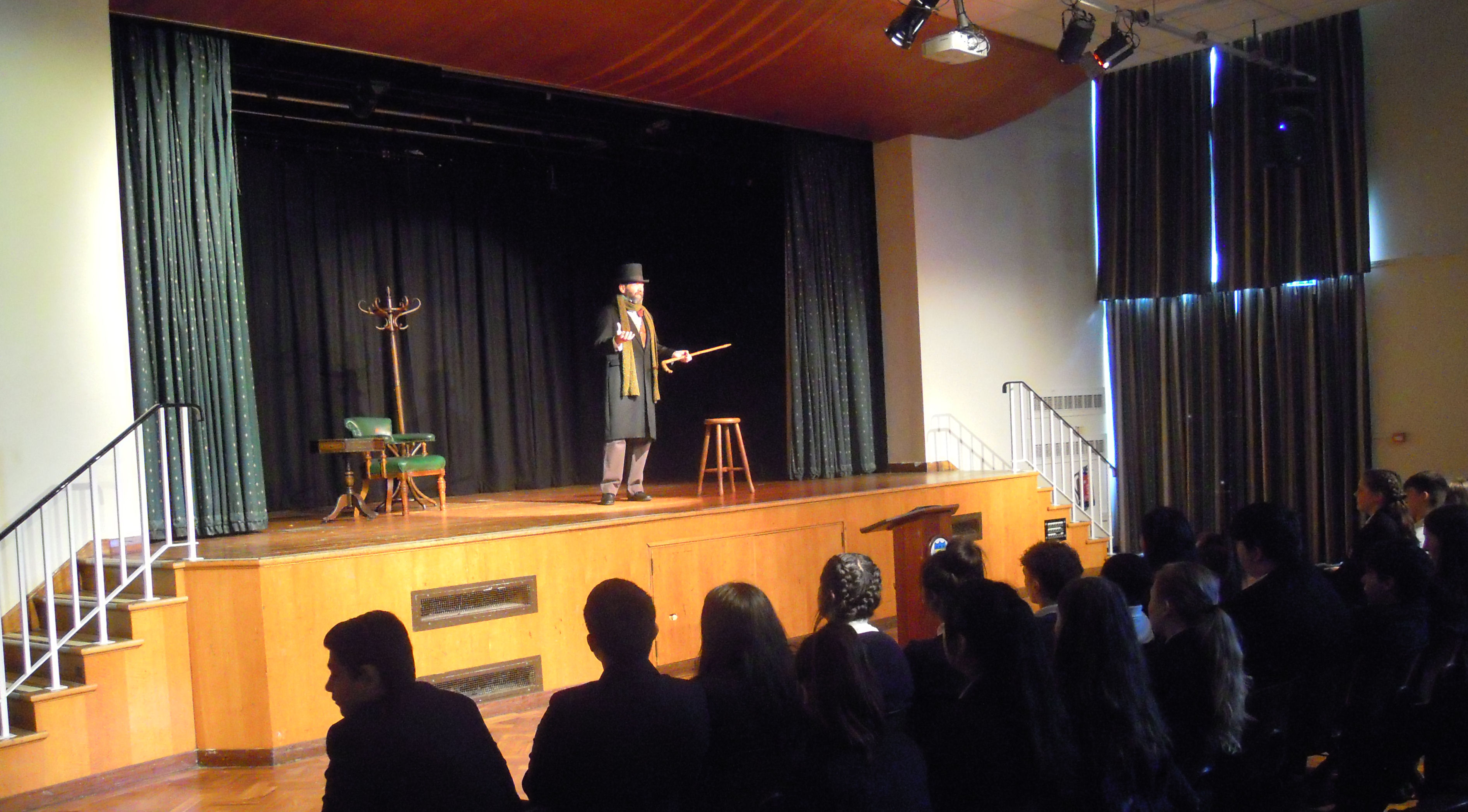 The actor and performer Gerald Charles Dickens in his solo performance of A Christma Carol at Alderwood Senior School in 2019